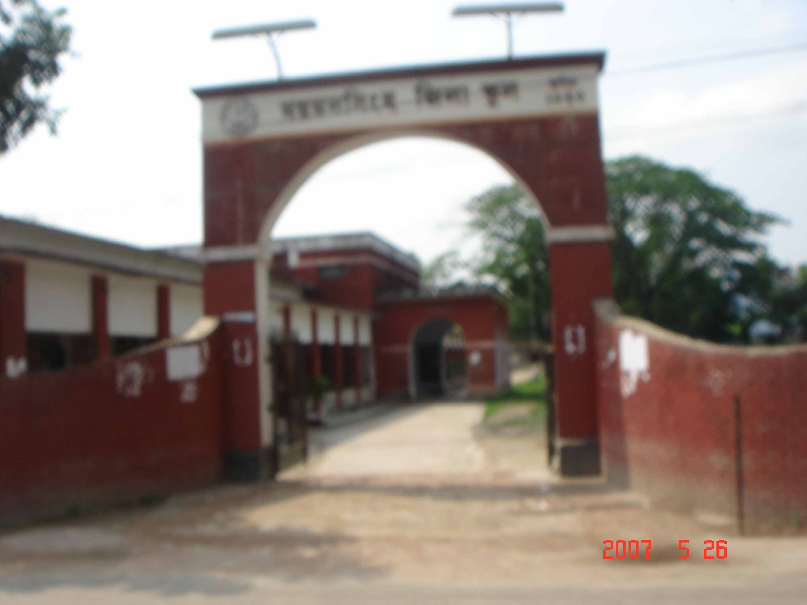 Mymensingh Zilla School(Boy's School)